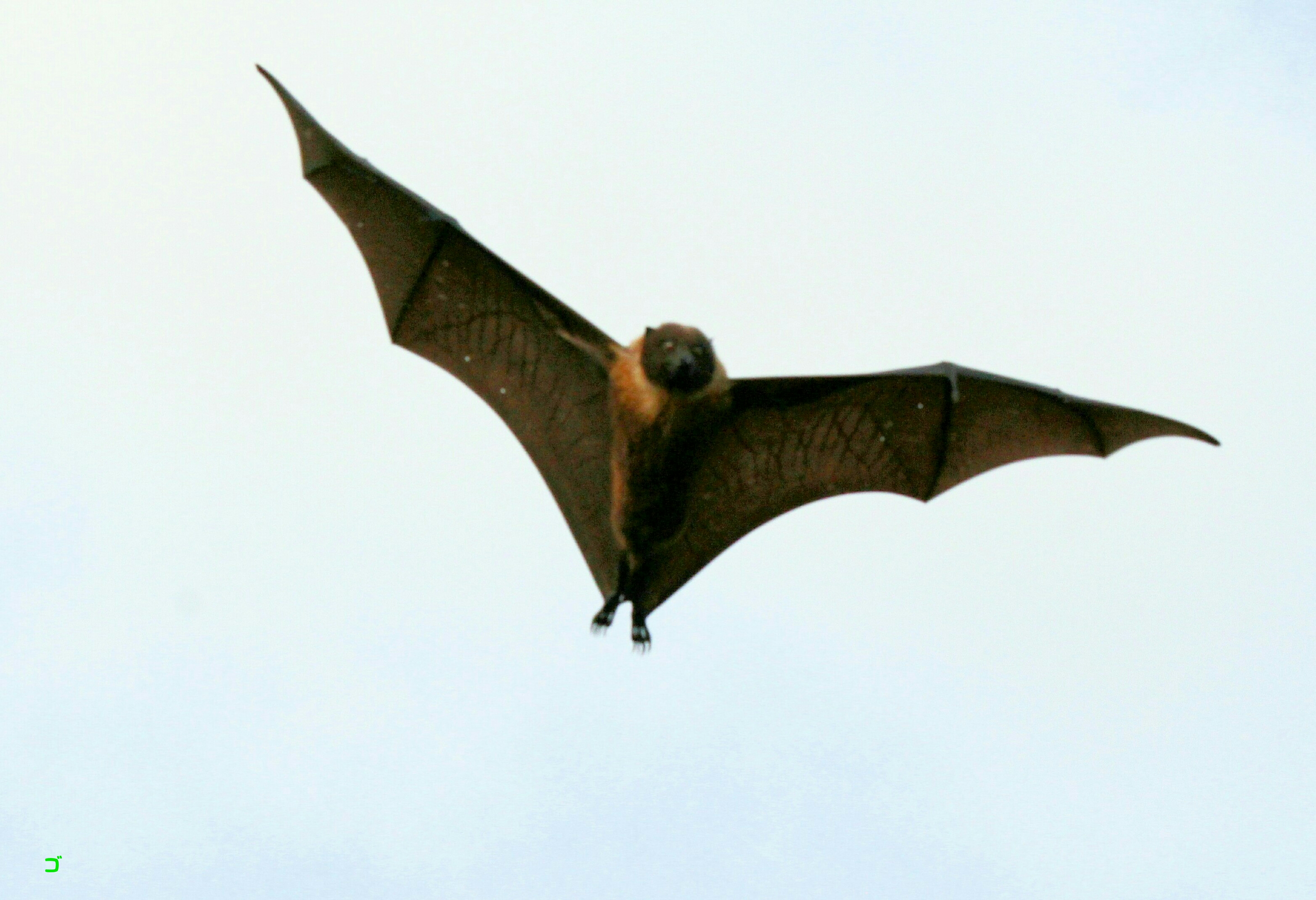 オリイオオコウモリ